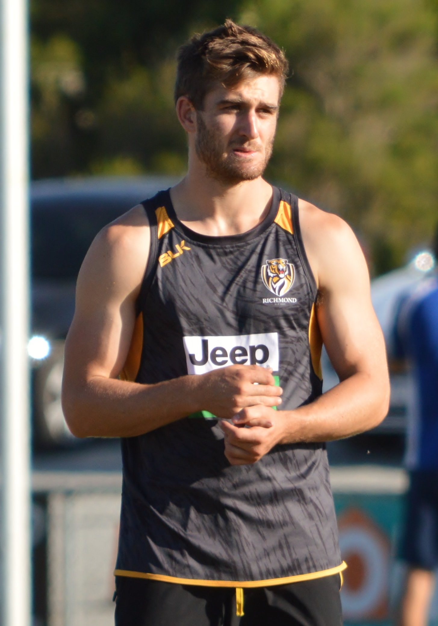 Anthony Miles at the Richmond Football Club family day in Beaconsfield on 20 December, 2016.